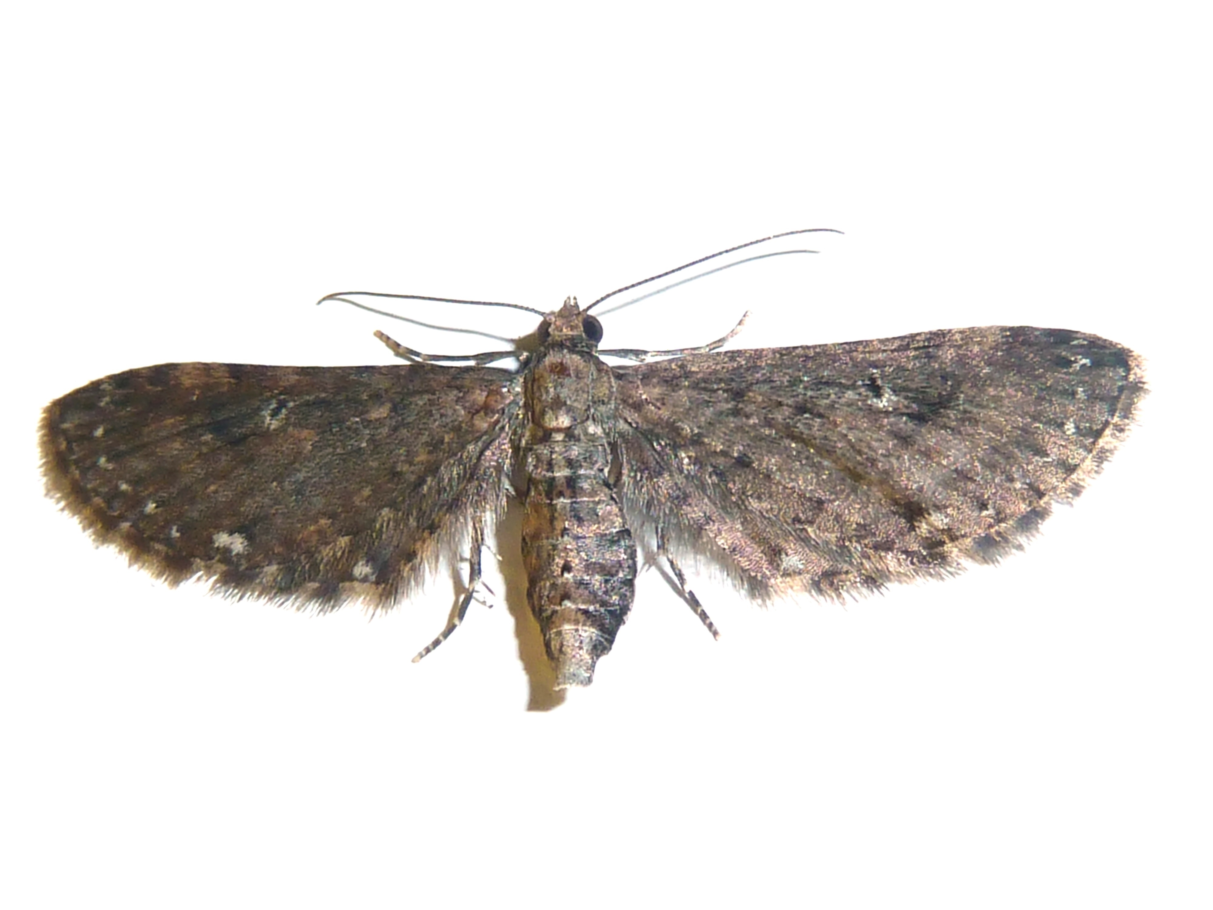 Eupithecia infelix in Pretoria